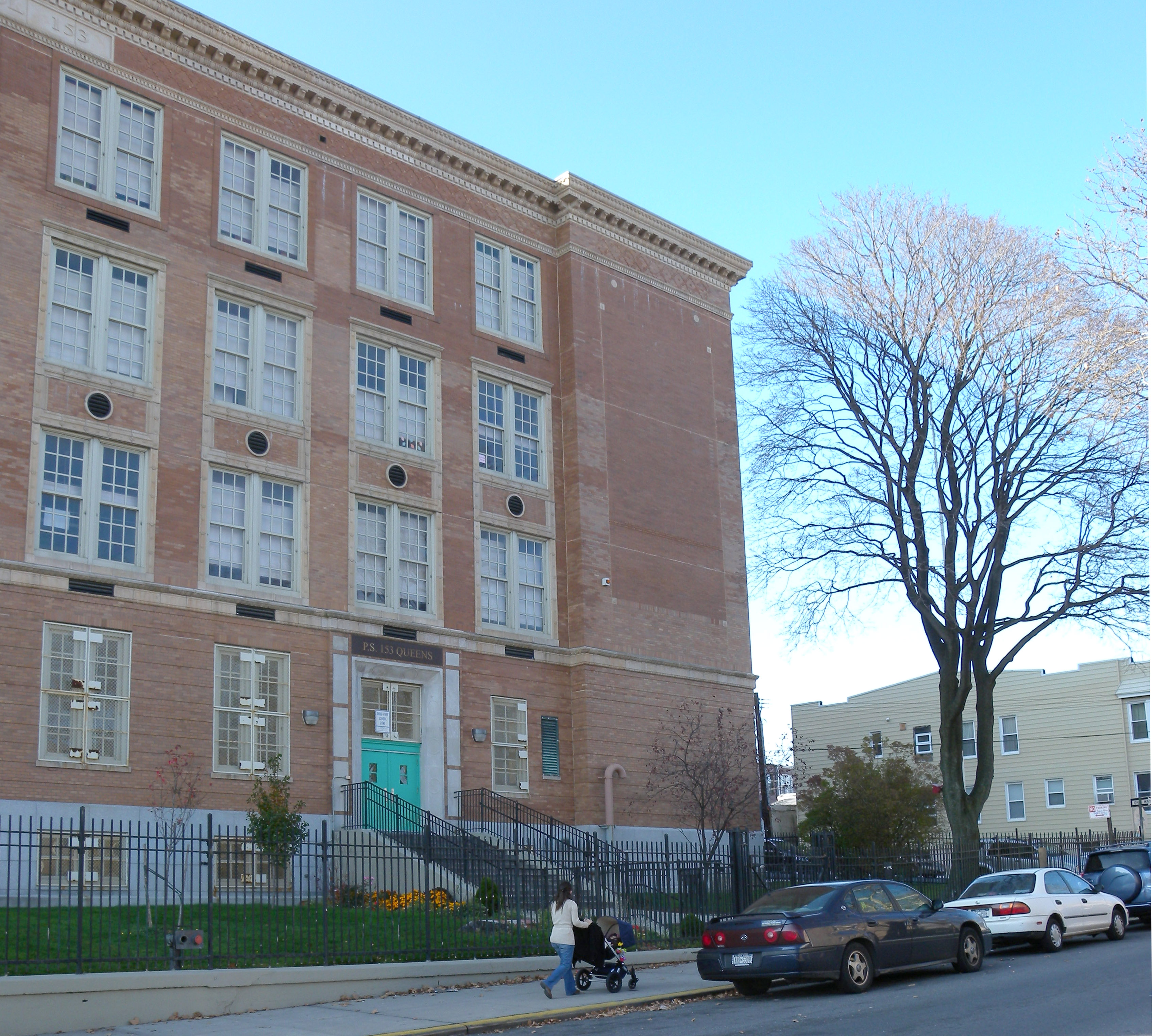 Looking northwest across 60th Lane at PS 153 in Maspeth on a sunny midday.